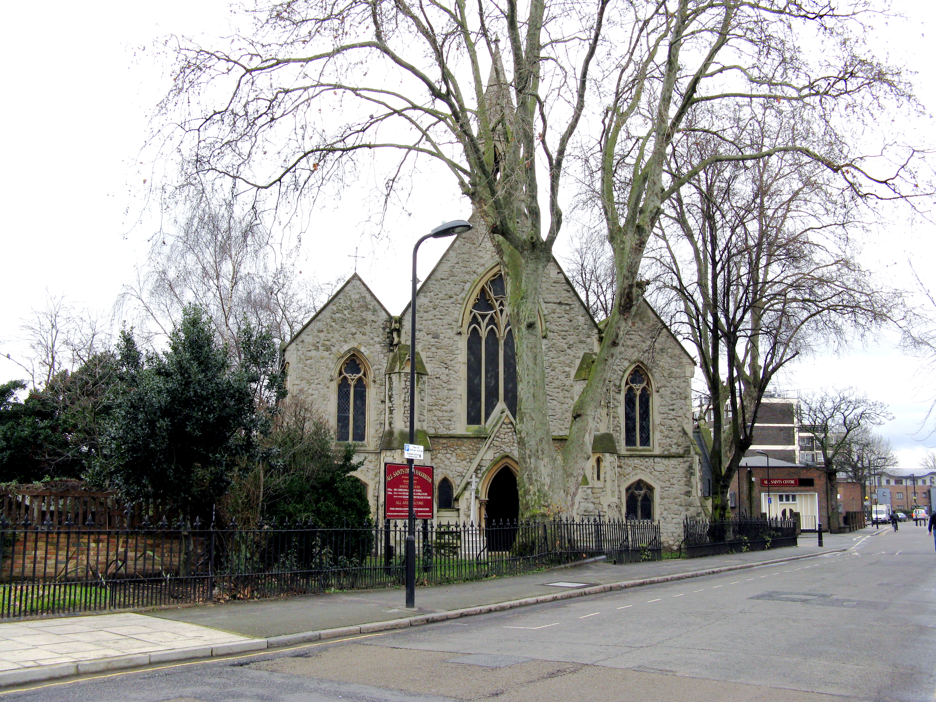 All Saints' parish church, Haggerston Road, London E8, seen from the west